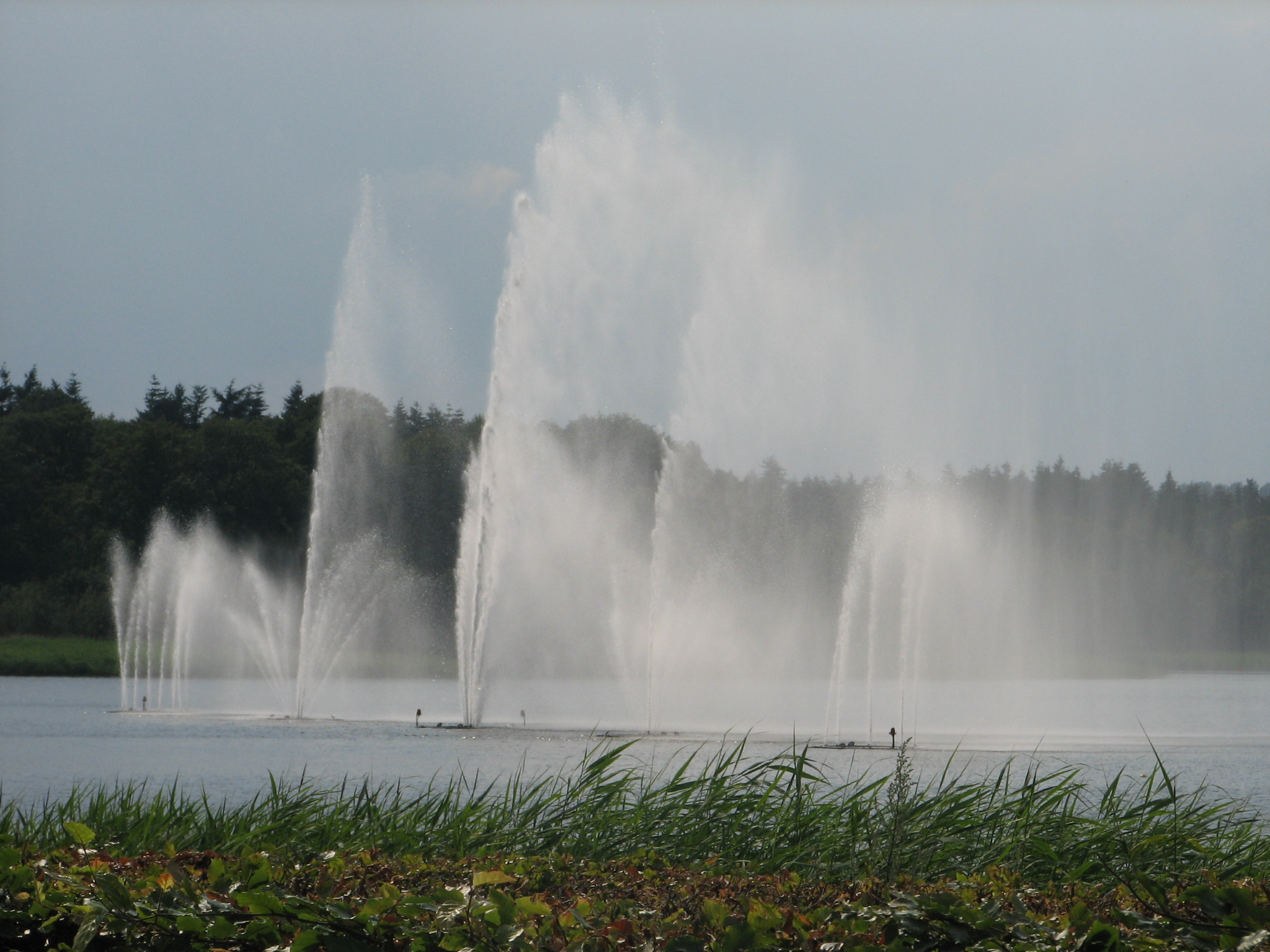 Lake in Silkeborg, Danmark